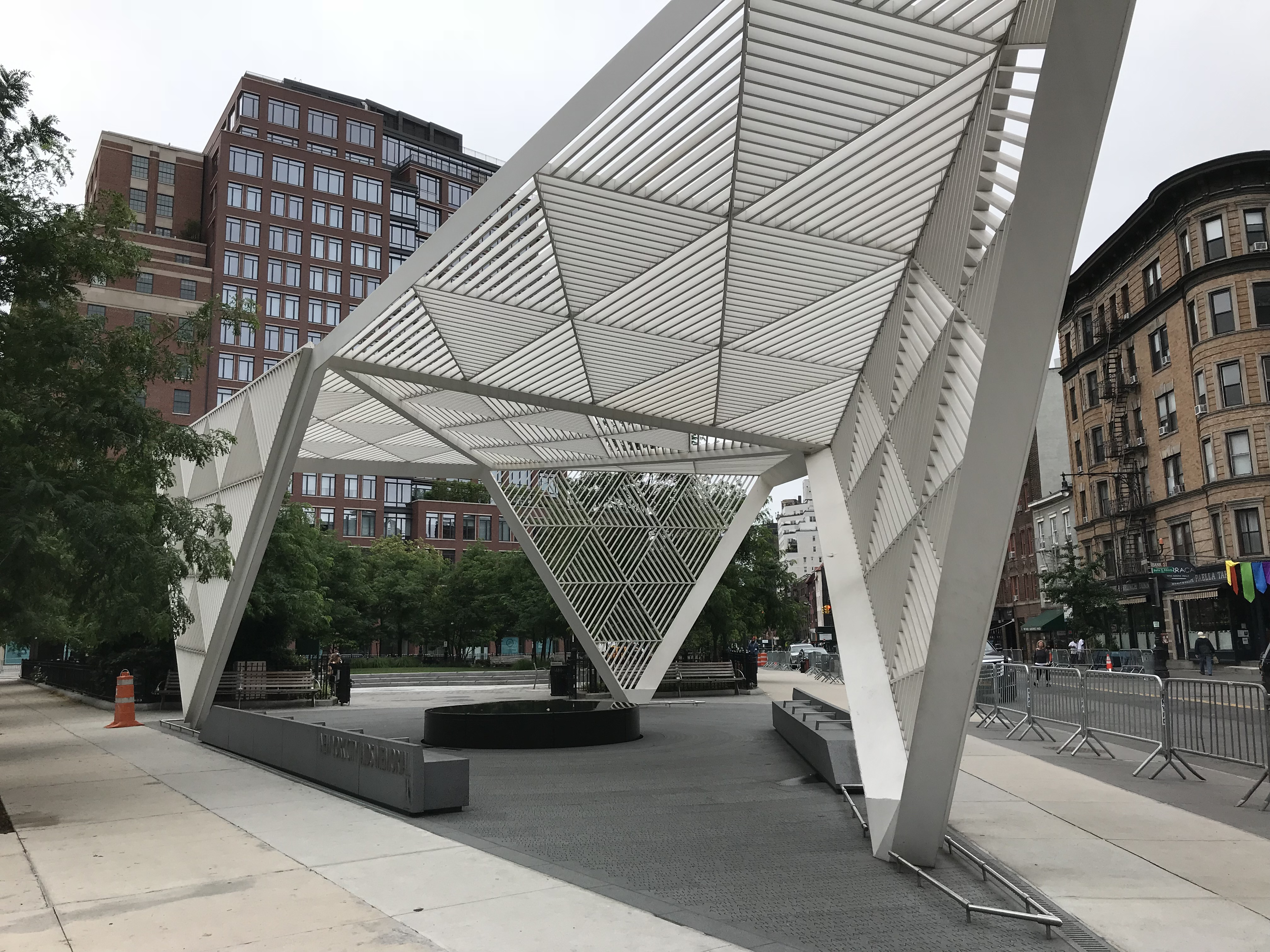 NYC AIDS Memorial Park sculpture at St Vincent's Triangle in Greenwich Village.Locality: New York CityTheme: This demonstrates public support of LGBT rights and place in history as connected with NYC Parks.